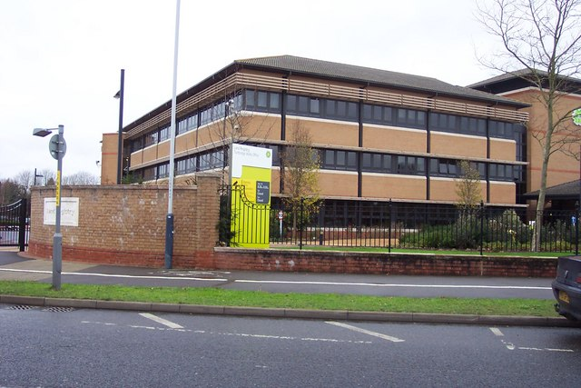 Land Registry Office at Tunbridge Wells Architectural styling c/o Bertie Bassett!